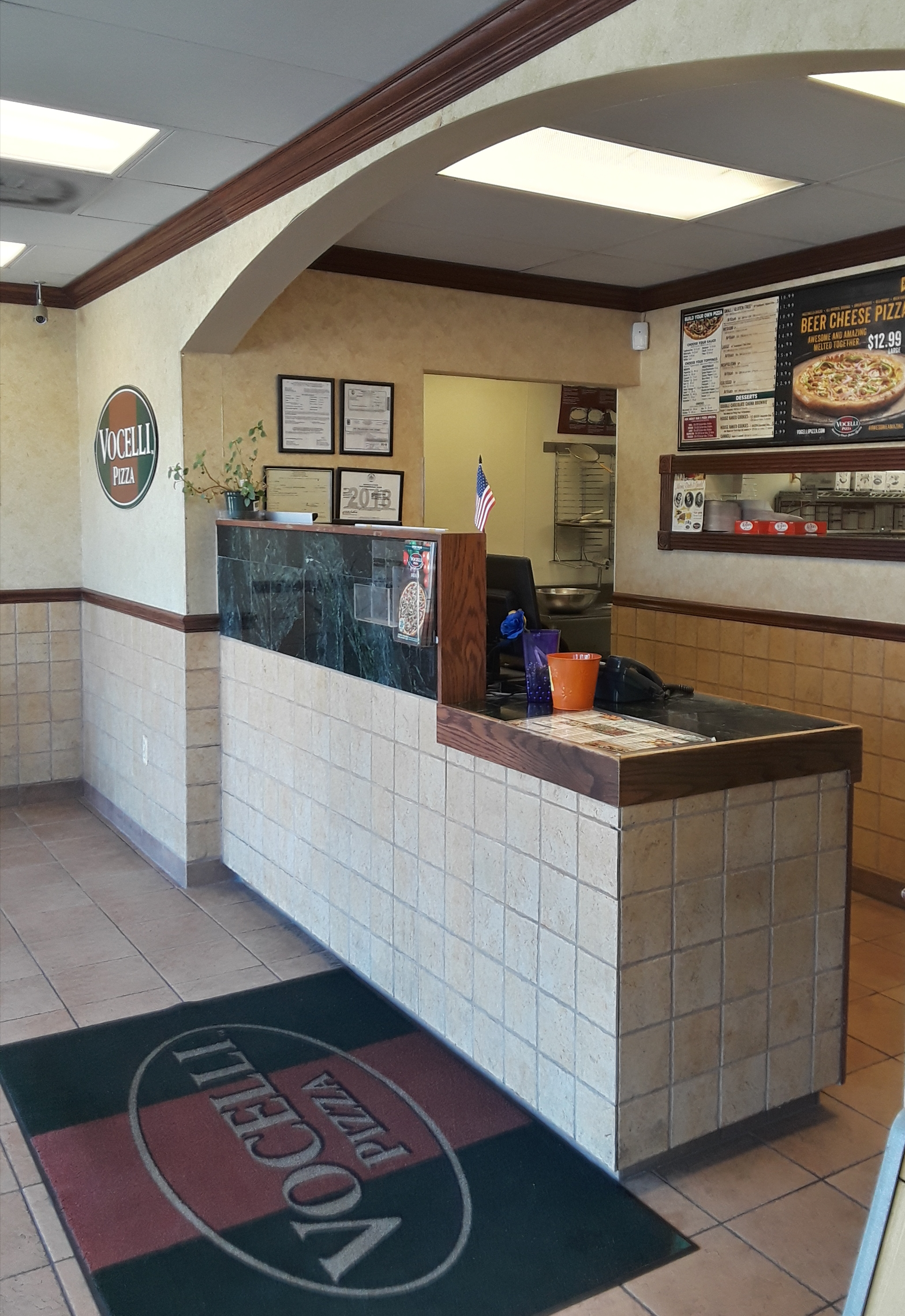 Vocelli Pizza franchise in Engleside, Virginia